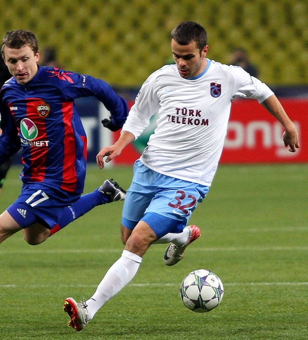 Paweł Brożek